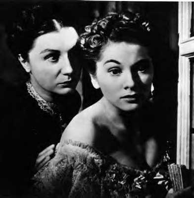 A screenshot of Judith Anderson and Joan Fontaine in Rebecca